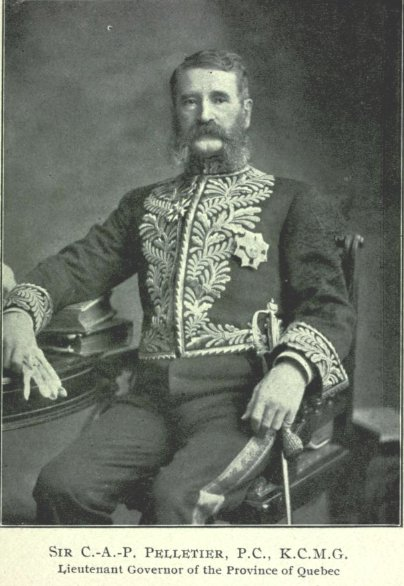 Image copied from the work cited, lightened and contrast adjusted using GIMP.